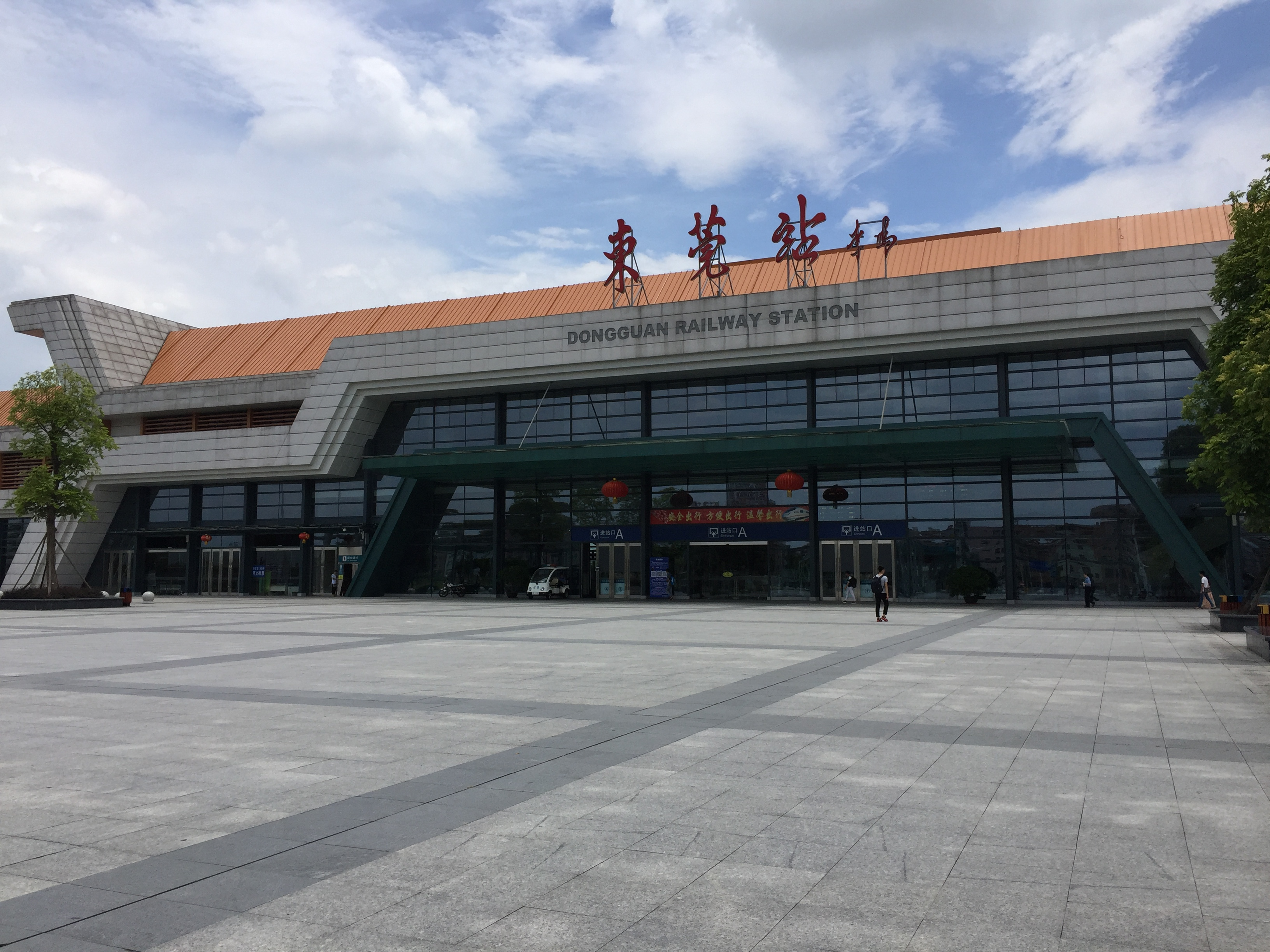 Dongguan Railway Station